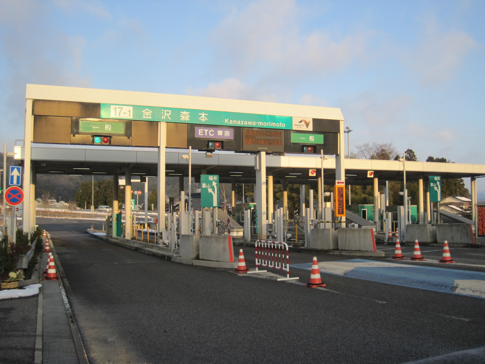 Kanazawa Morimoto IC(Toll plaza of Hokuriku Expressway)